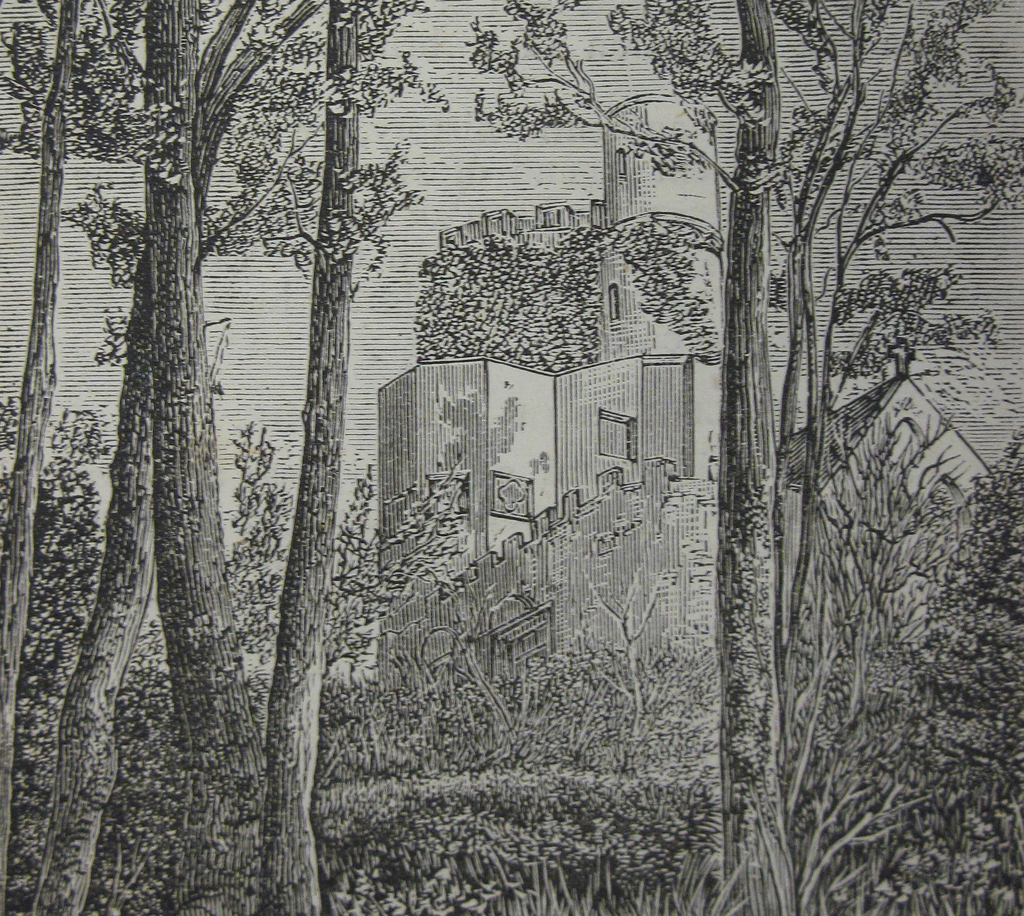 Illustration from Ward & Lock's Illustrated Guide to, and Popular History of the Channel Islands (1882) - "Prince's Tower, Jersey"